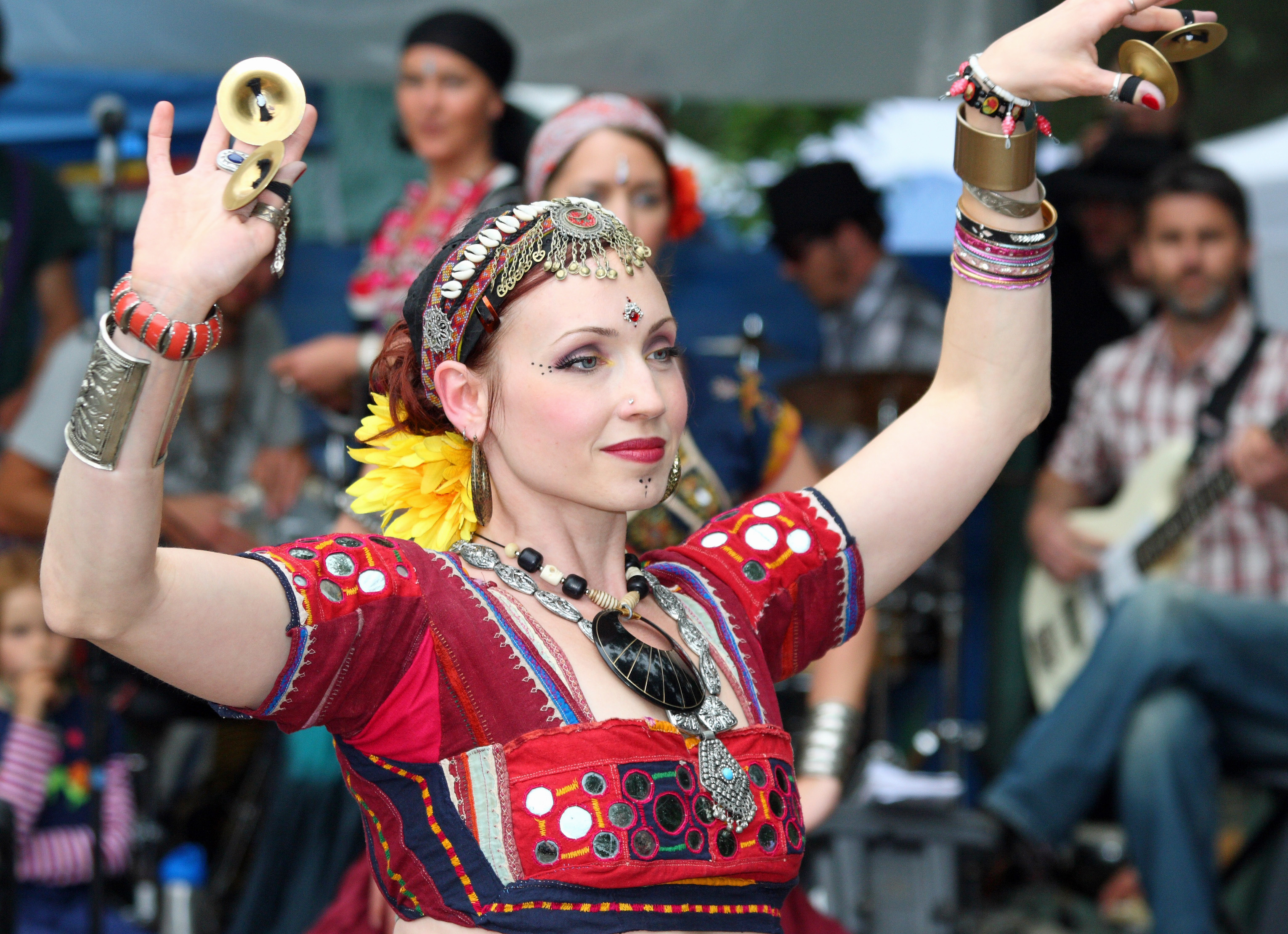 Gypsy Underground is a collection of Middle Eastern dancers that I'm fortunate to know several of them. They performed at the 2010 Girdwood Forest Fair - Girdwood is a small town about 30 miles south of Anchorage, Alaska - a very small community with great skiing, hiking, and beer. While shooting the dancers I was trying different settings (ISO, aperture, and flash adjustments) - I think the shots are getting better but if there are any pros out there I would appreciate your constructive criticism and/or advice. Enjoy the set.